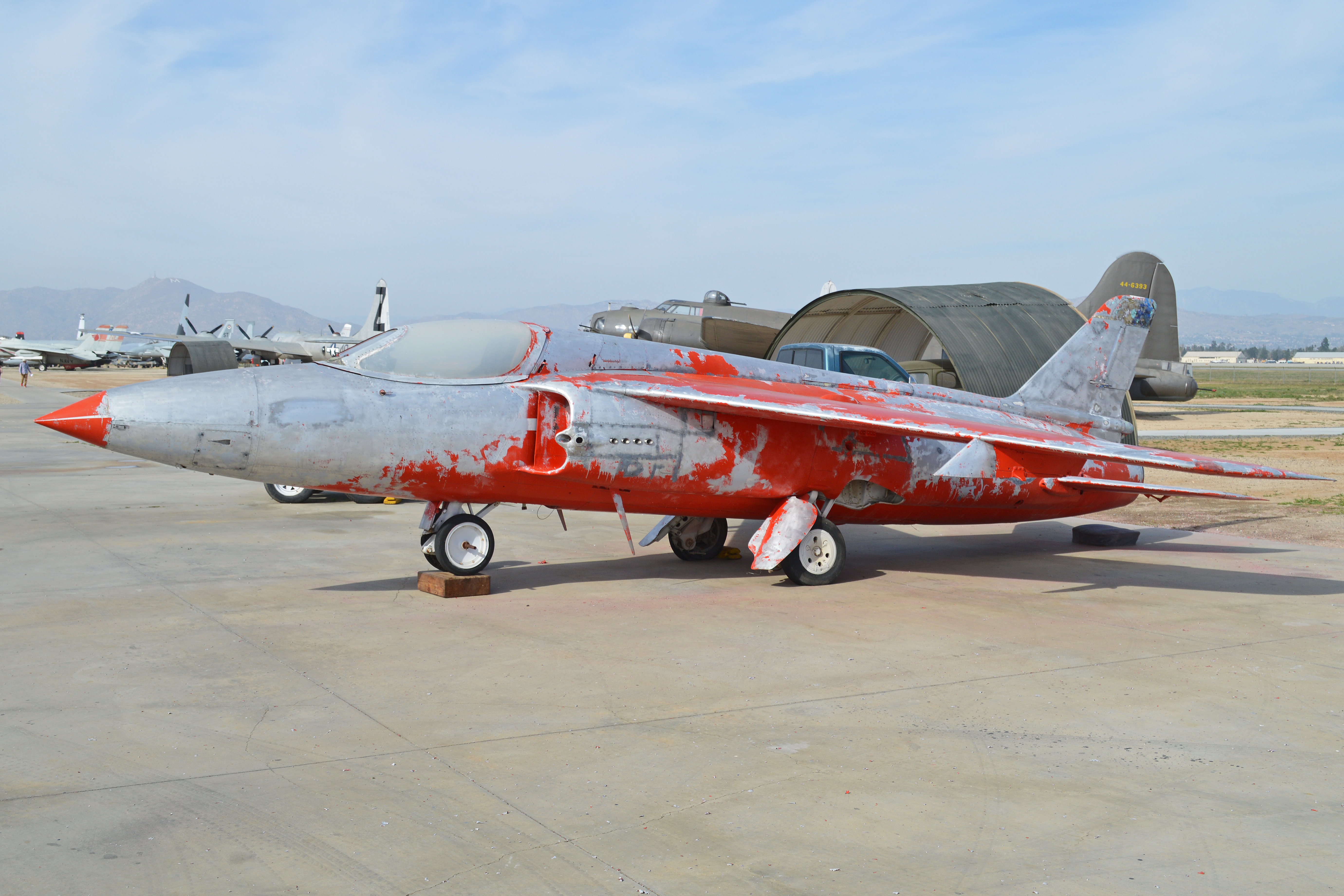 c/n GT207. Indian Air Force serial E1076. The HAL Ajeet was a Folland Gnat built under license in Indian by HAL (Hindustan Aeronautics Ltd). There is some confusion over the true identity of this Ajeet, probably caused by the Indian Air Force using both IE1076 & E1076 as serials. These are generally believed to be two different aircraft, but may have been simply a renumbering of a single machine. If this example is actually IE1076 renumbered, then it would be c/n GT005. I have used the more commonly quoted ‘E1076’, c/n GT207. Previously painted in RAF Red Arrows colours, it is seen after being stripped for repainting. It would be nice to see it in a genuine Indian scheme, but even a Finnish scheme would be more appropriate for a single seater. March Field Museum, Riverside, CA, USA. 28-2-2016